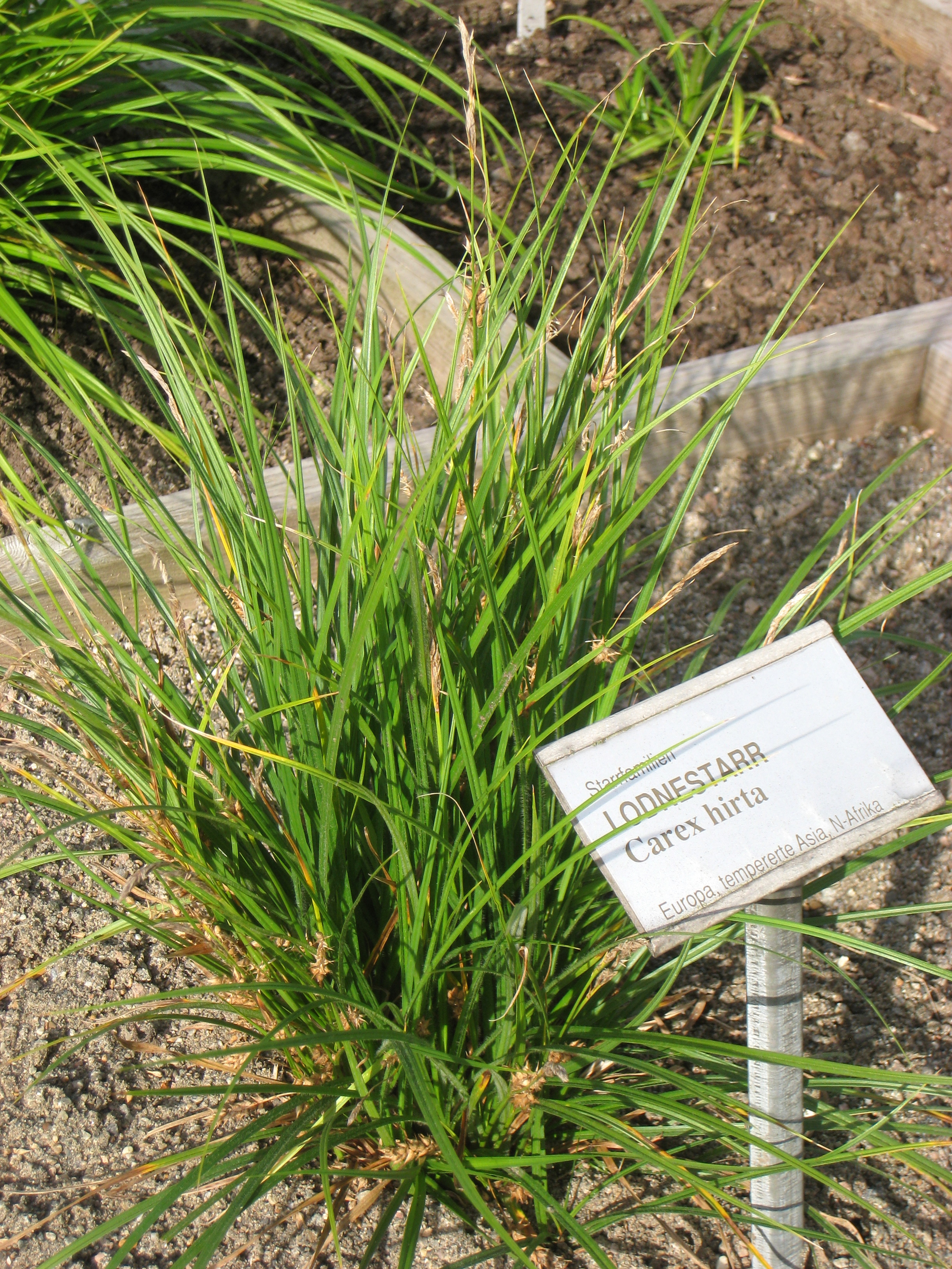 Carex hirta - Oslo botanical garden, Oslo, Norway.